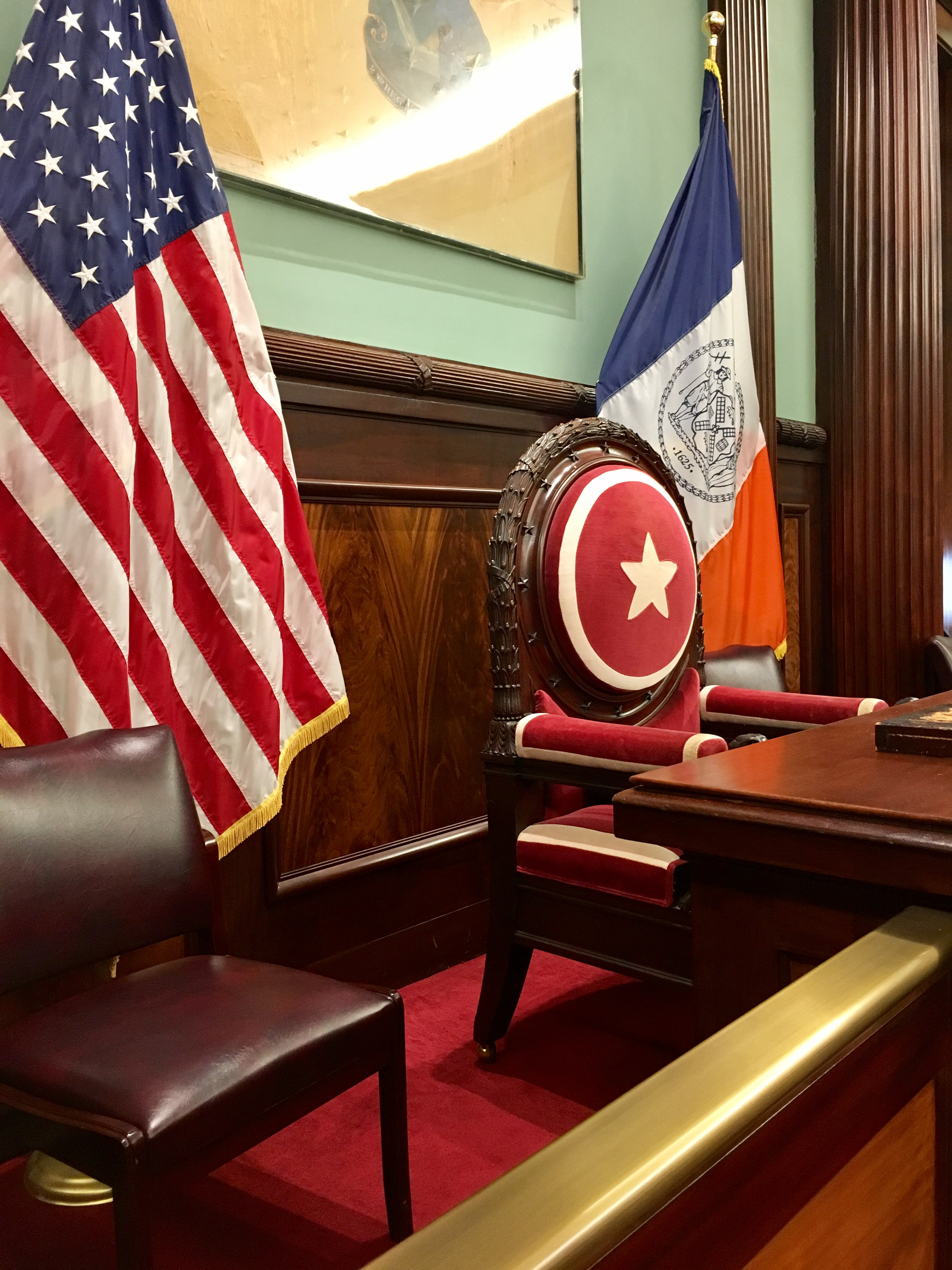 Site: City Hall